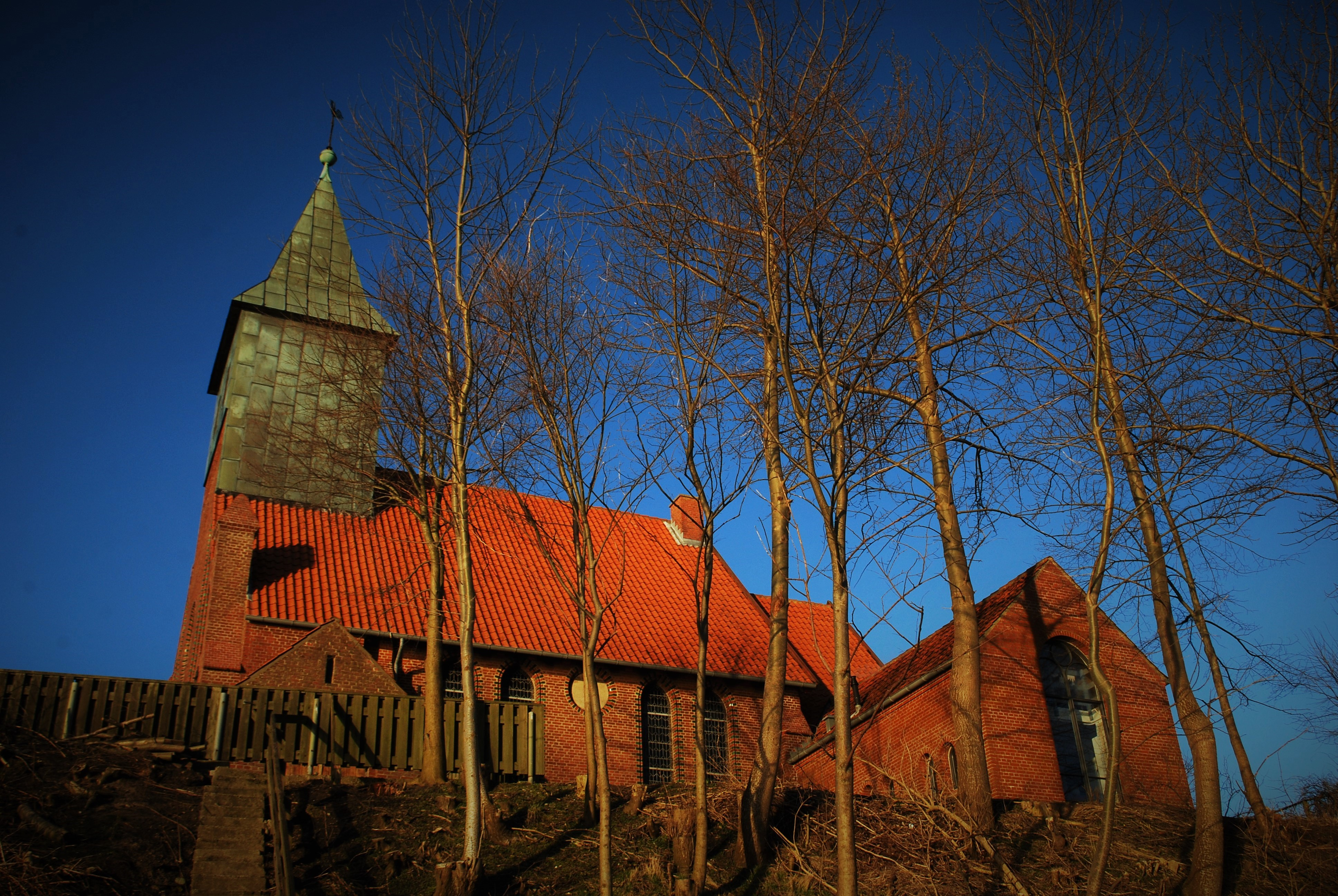 Church of Egernsund, Sønderborg Kommune, Denmark